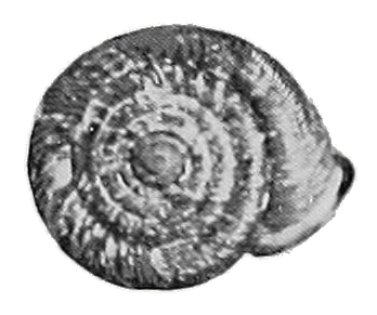 Photo of an apical view of a shell of Gudeodiscus messageri.